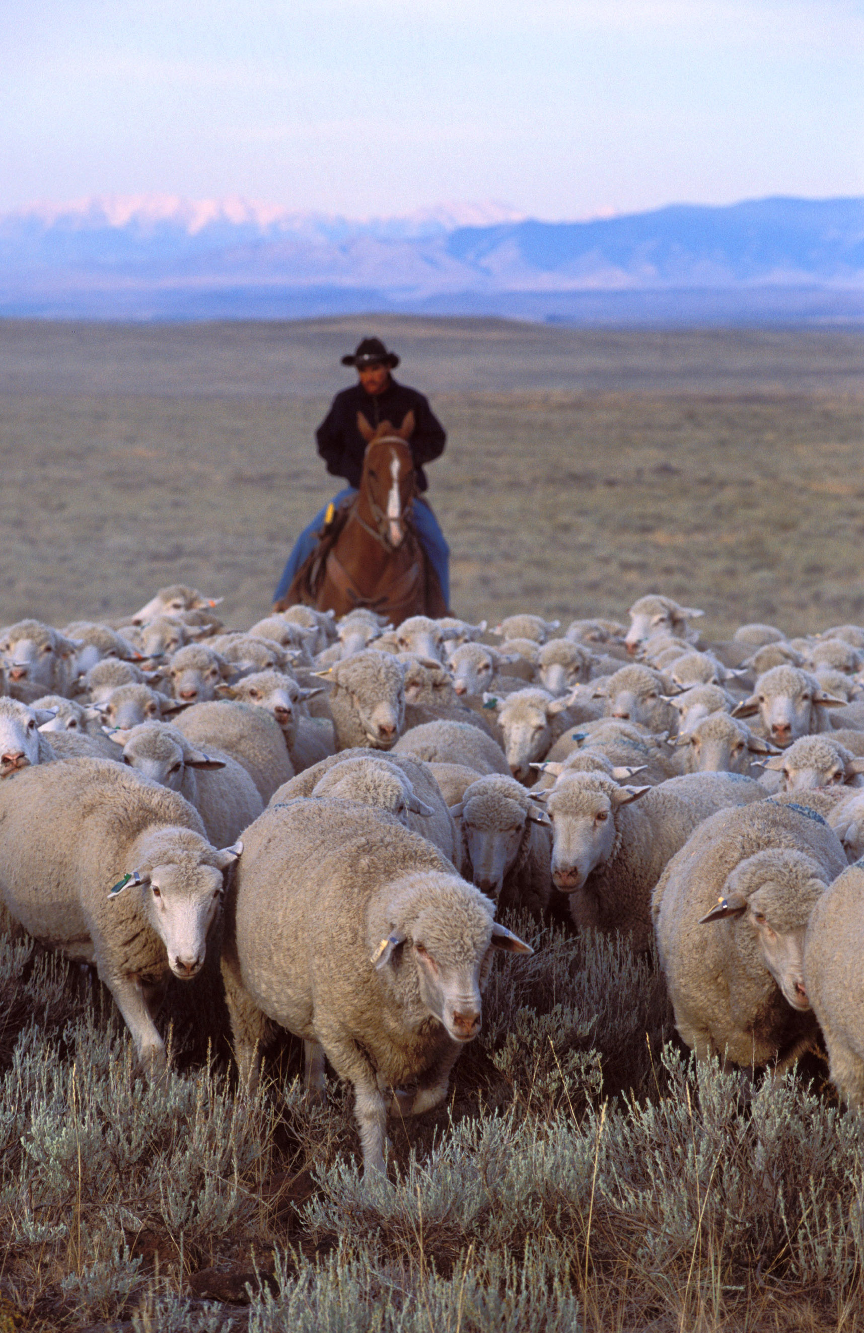 Herding sheep to research sites at the U.S. Sheep Experiment Station near Dubois, Idaho. These sheep, with their diverse diet preferences, may help native species compete against invasive species in the sagebrush steppe.